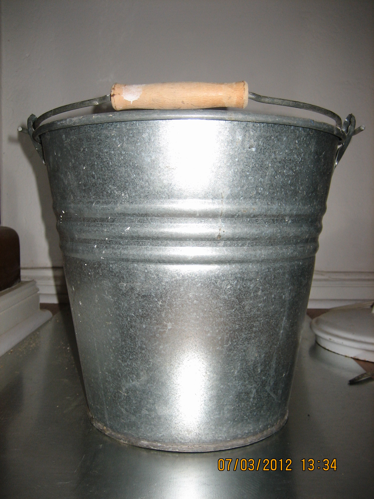 License: Creative Commons Zero or Public Domain